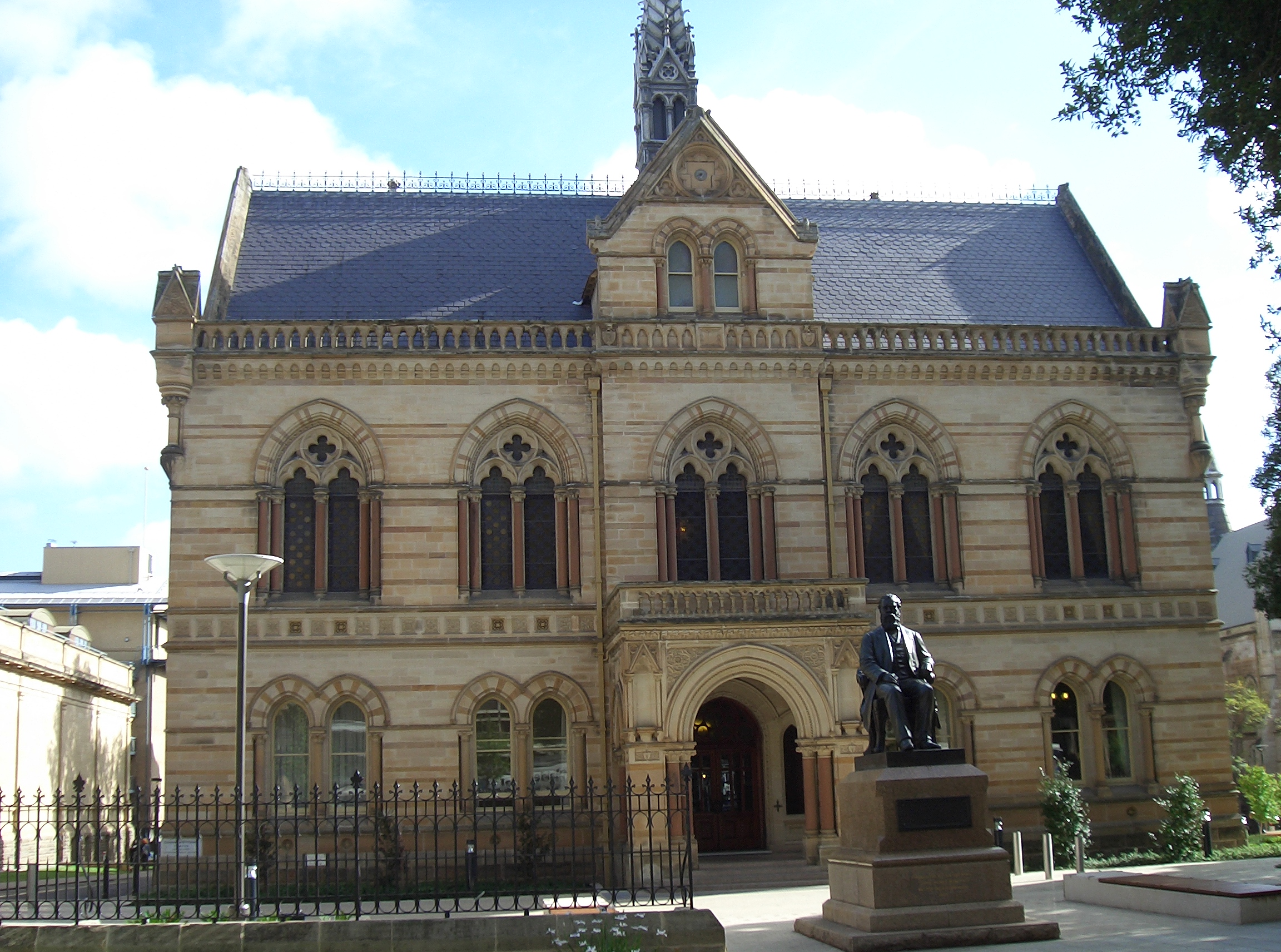 University Building, built 1879-1882 was renamed the Mitchell Building in 1961 on the centenary of the birth of Sir William Mitchell, Professor of Philosophy 1894-1922, Vice-Chancellor 1916-42, Chancellor 1942-48, and benefactor. A sandstone building, original university building. North Terrace, Adelaide, South Australia. Many images of this building created around 1900 exist in the University of Adelaide digital library. (Example) See also this one from 1880: [1][dead link]